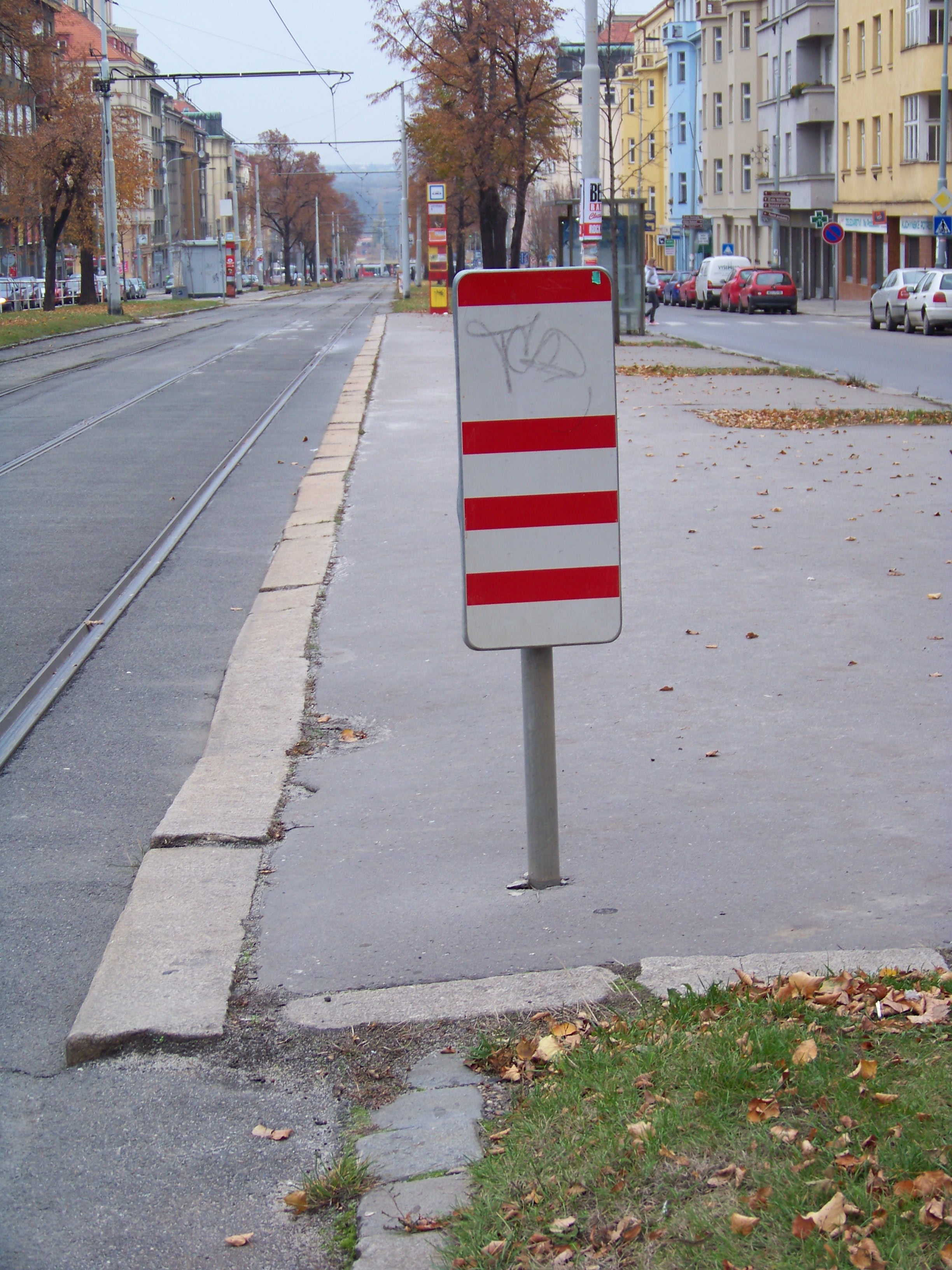 Bubeneč and Dejvice, Prague, the Czech Republic. Jugoslávských partyzánů Street, a tram stop. - Google Maps - Google Earth